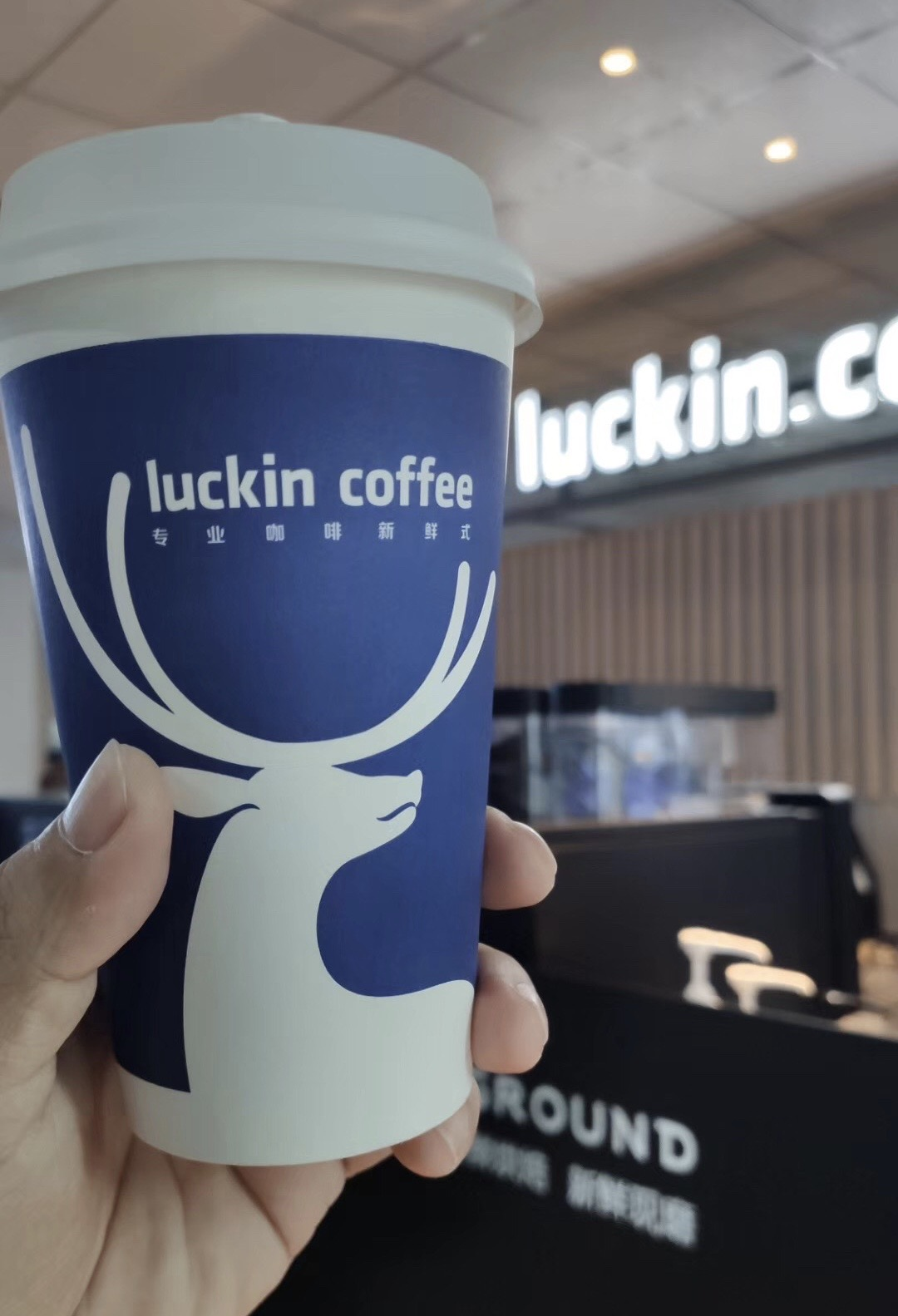 A cup of Luckin Coffee